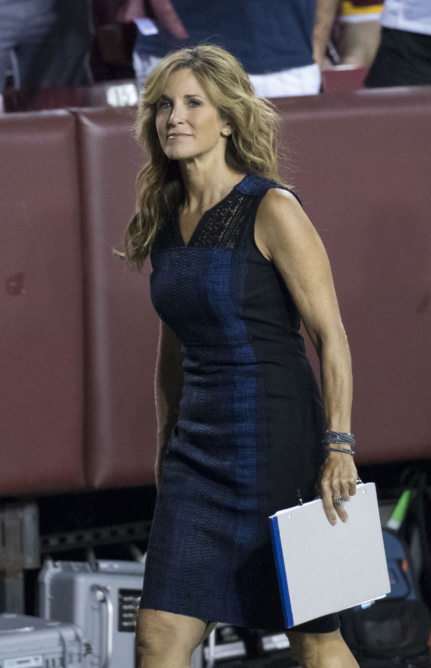 Steelers at Redskins 9/12/16